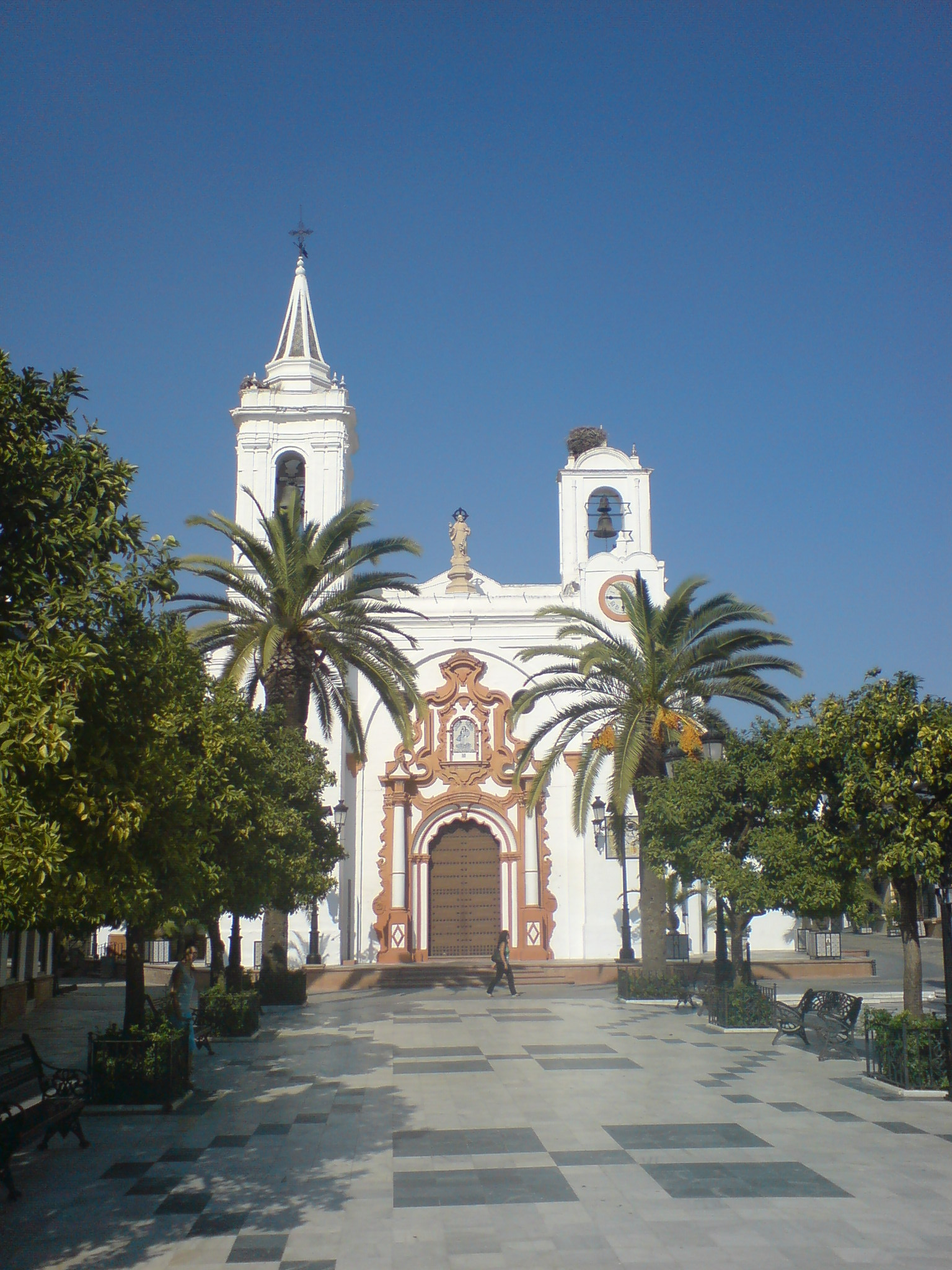 Iglesia parroquial, Almonte (Andalusia)